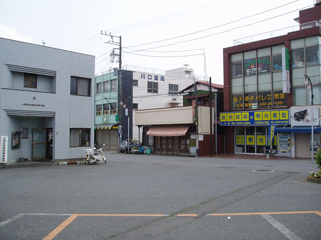 Front of Tomizu Sta.